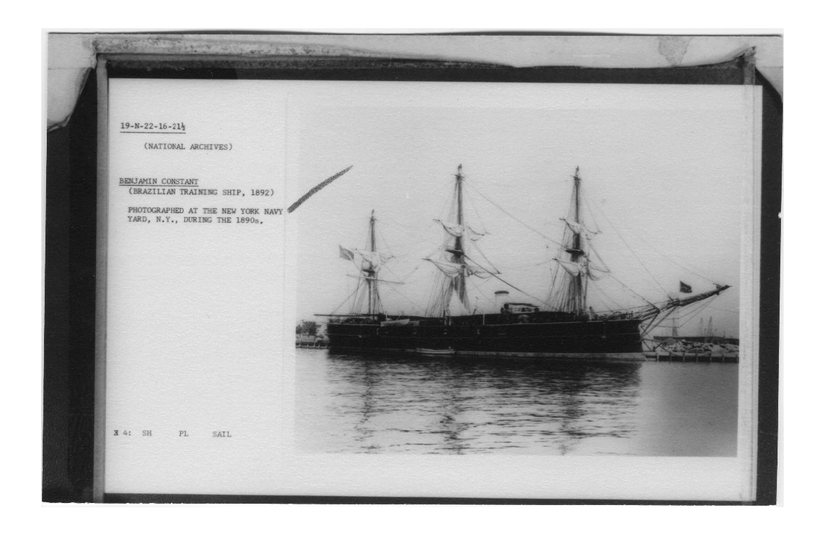 Photograph: Benjamin Constant (Brazilian Training Ship) Photographed at the New York Navy Yard During the 1890s description: According to a New York Times article, the Constant also arrived in New York on May 30, 1901 on a reciprocal visit to one by the U.S. South Atlantic Squadron on the occasion of the inauguration of Brazil's President Don Campos Sales.